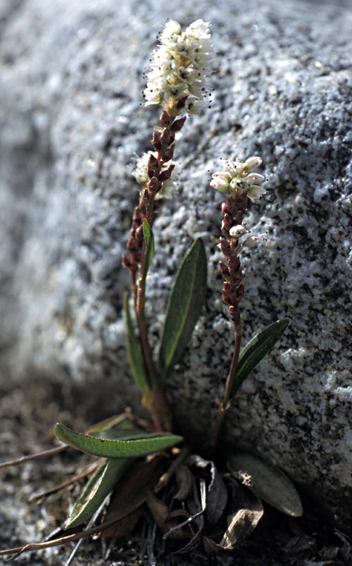 Knotweed, Polygonum viviparum, Svalbard.